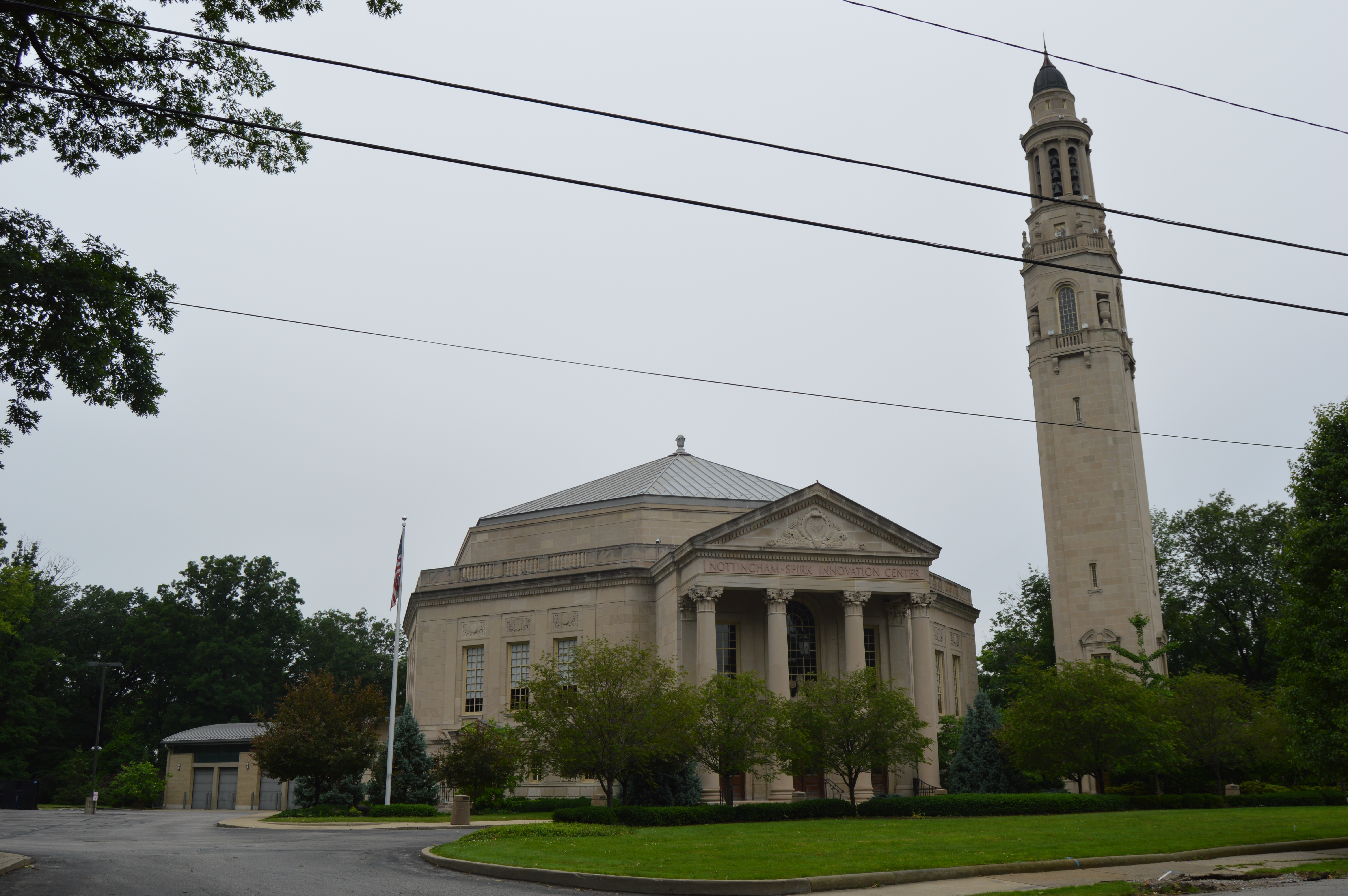 Front of the former First Church of Christ, Scientist, located at 3503 E. 93rd Street in Cleveland, Ohio, United States. Built in 1929 and now headquarters for Nottingham Spirk, it is listed on the National Register of Historic Places.